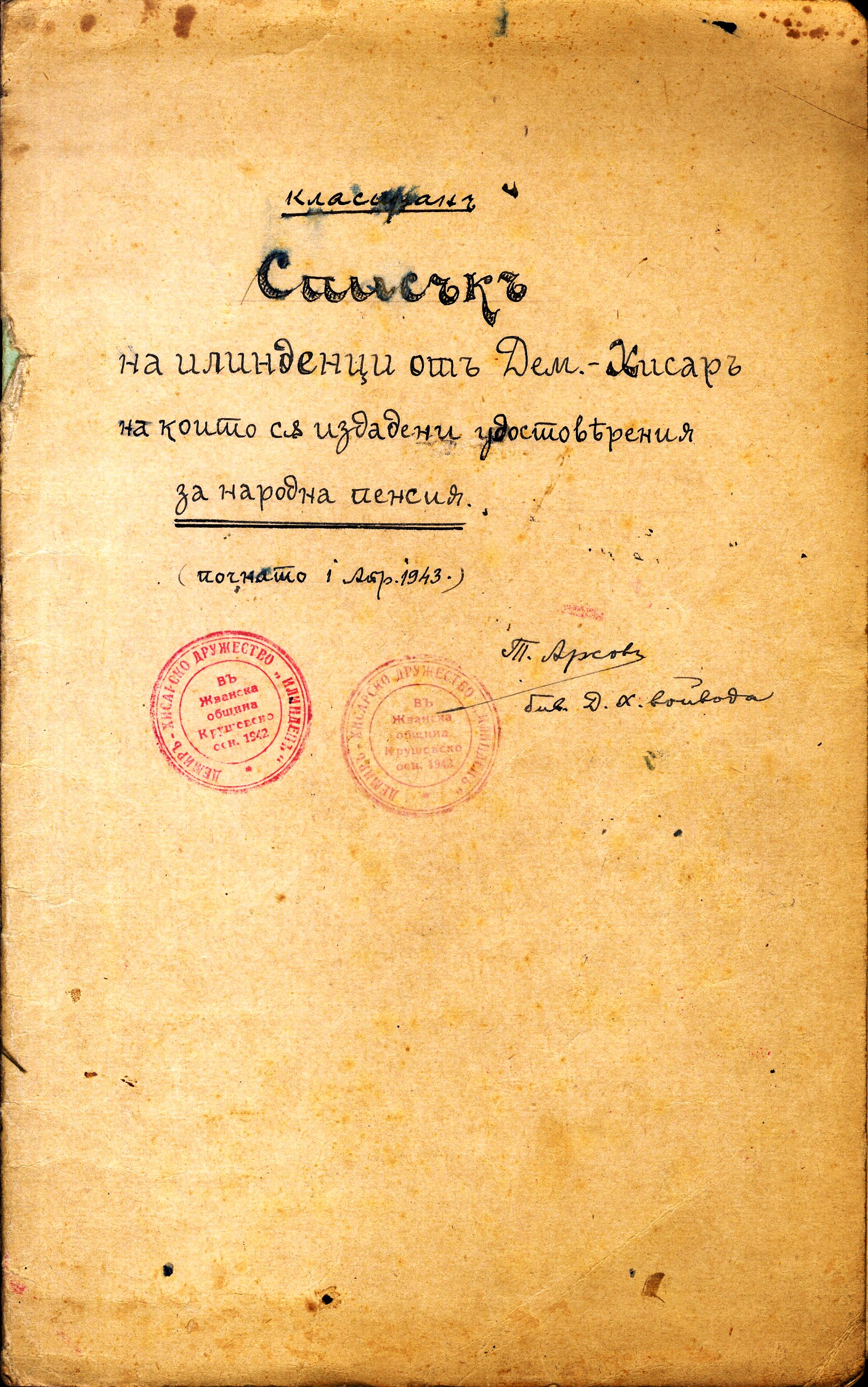 A list of Ilinden revolutionaries from Demir Hisar region, Tasko Arsov. This media file is produced by Wikipedian in Residence in Category:Wikipedian in Residence at DARM in 2017.